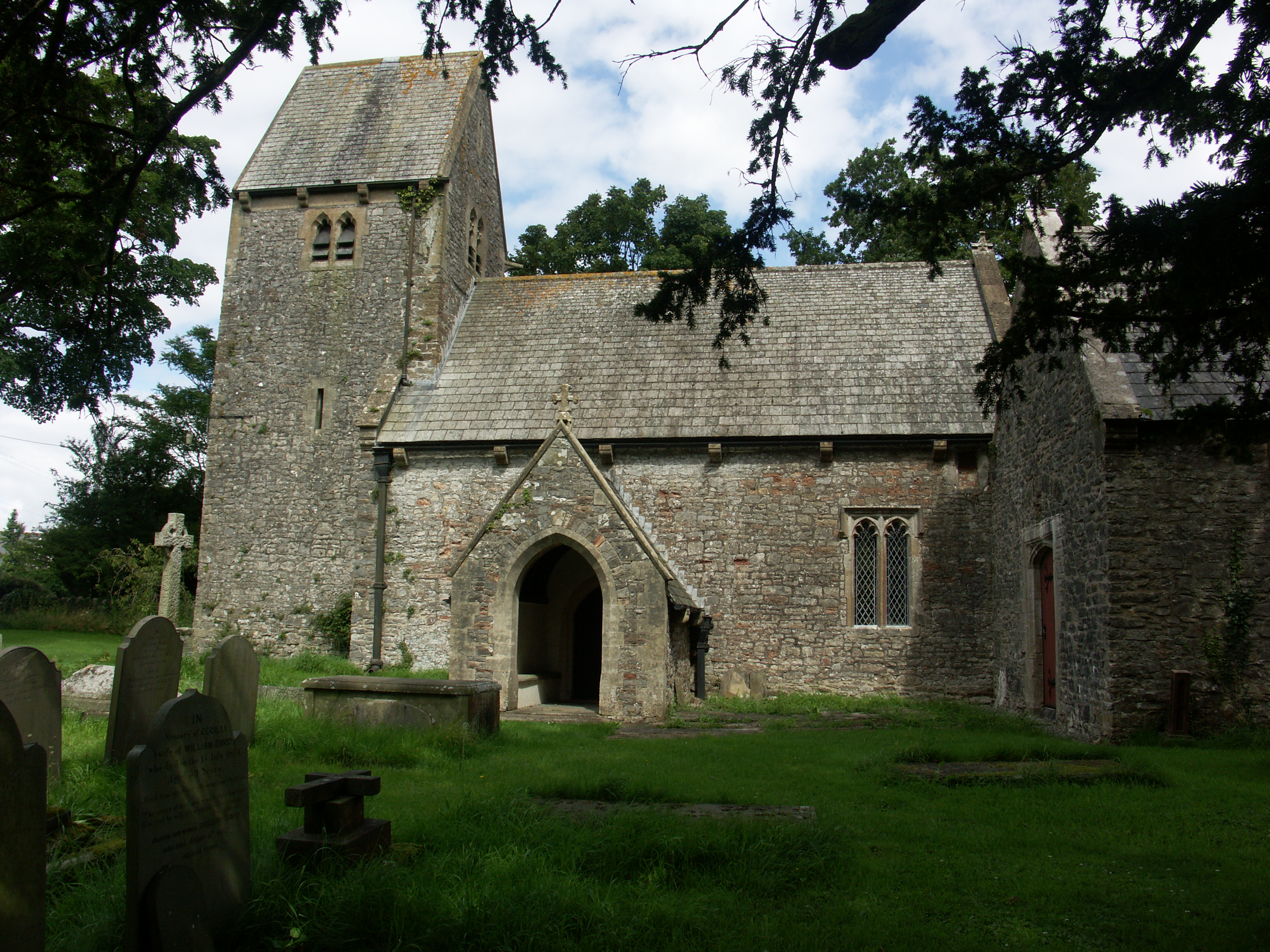 Eglwys Sain Bleddian